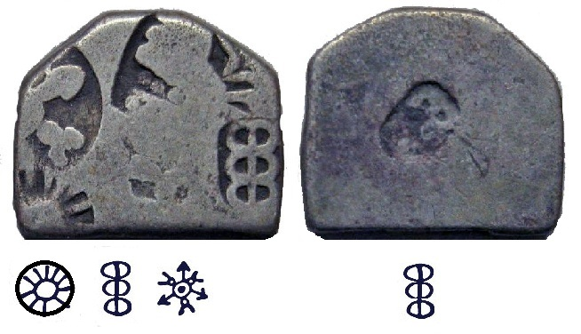 Silver Punch-marked Coin (PMC) of the period of Ashoka, The great Mauryan Emperor of ancient India